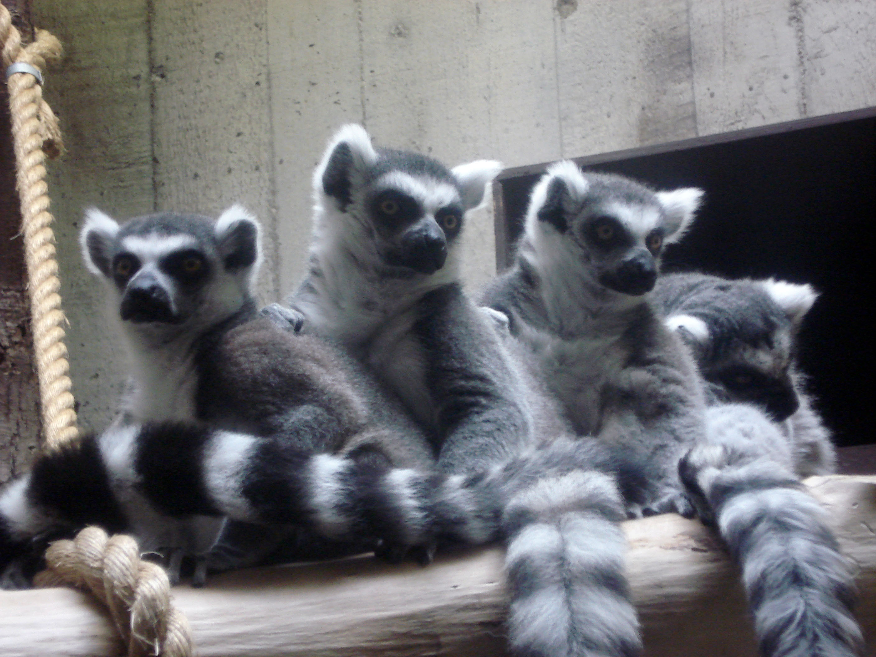 Lemurs photographed at the Cleveland Metroparks Zoo